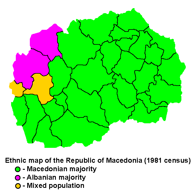 Ethnic map of the Republic of Macedonia (self made)